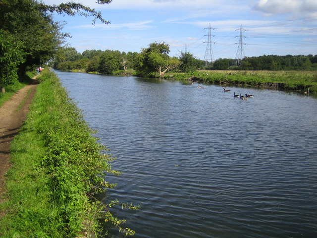 Picture of the River Lee Navigation close to Waltham Cross